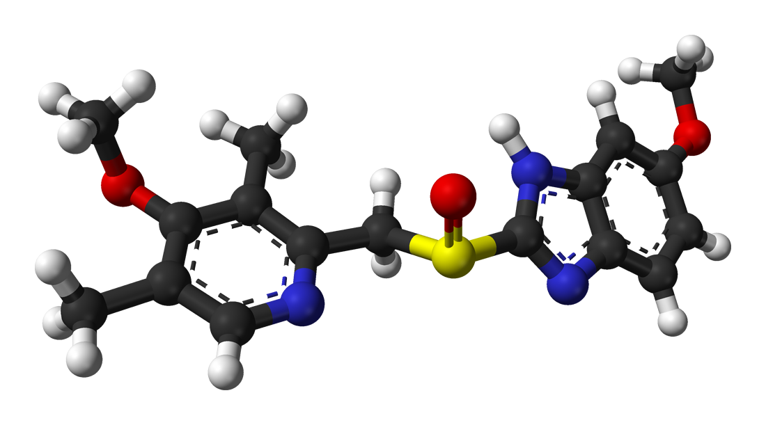 Ball-and-stick model of the omeprazole molecule. X-ray crystallographic data from H. Ohishi, Y. In, T. Ishida, M. Inoue, F. Sato, M. Okitsu and T. Ohno (1989). "Structure of 5-methoxy-2-{[4-methoxy-3,5-dimethyl-2-pyridinylmethyl]sulfinyl}-1H-benzimidazole (omeprazole)". Acta Crystallographica Section C 45: 1921-1923.